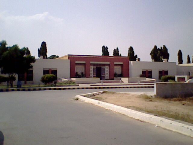 Basic Medical Sciences Campus